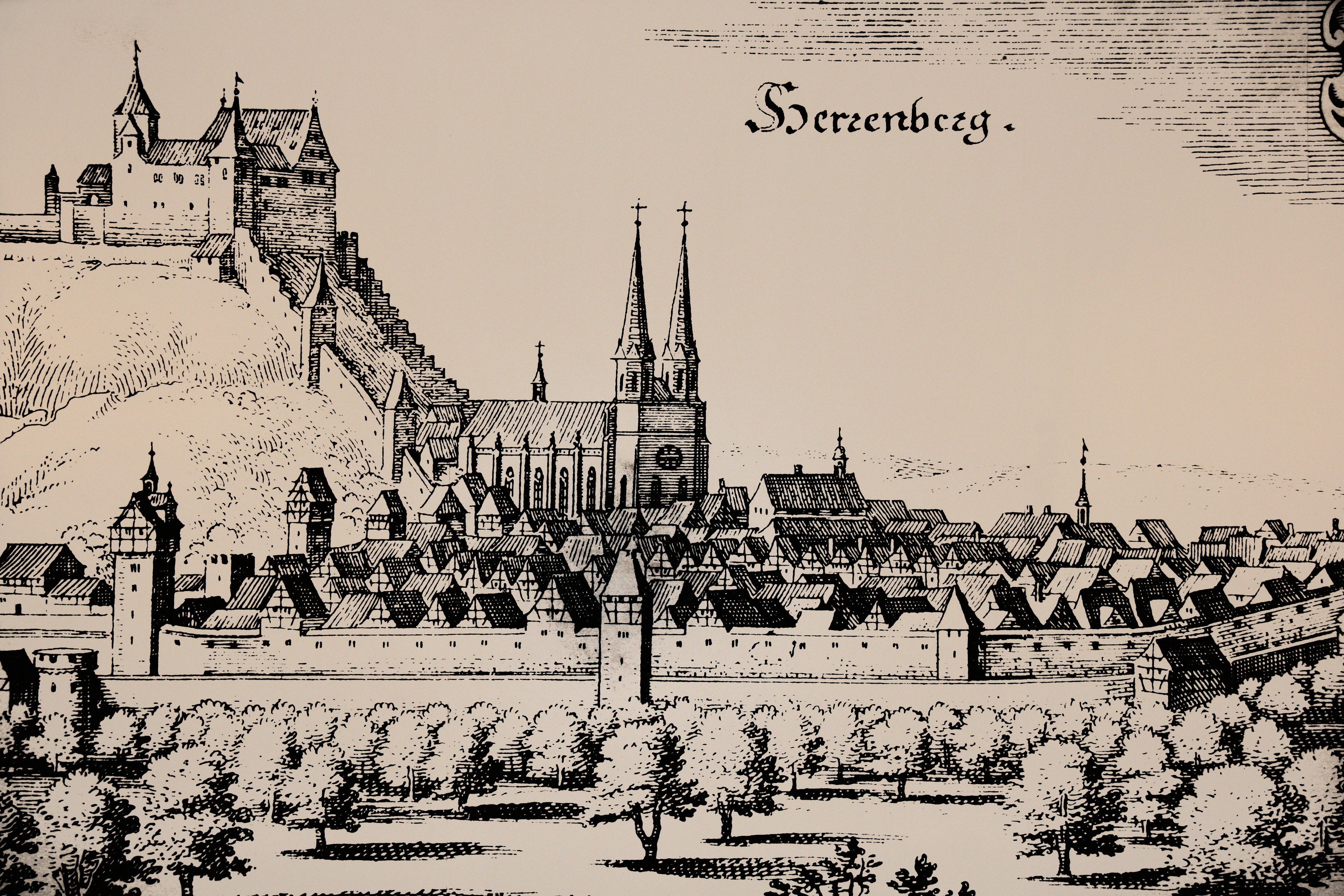 Merianstich Hbg im Ratssaal